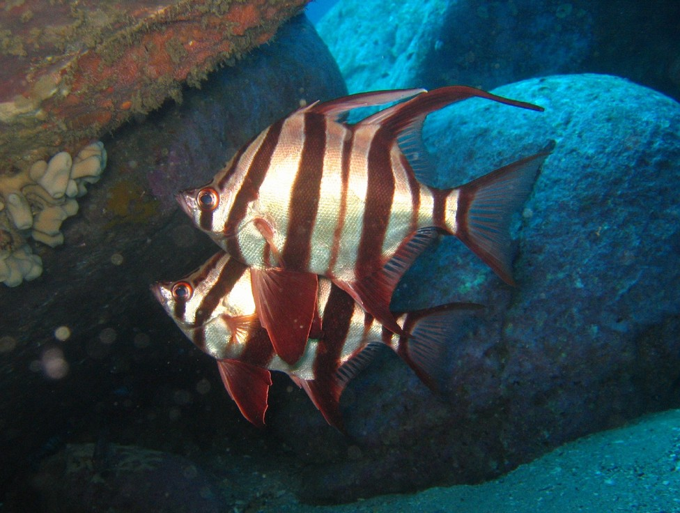 A pair of Old Wife (Enoplosus armatus) among boulders. Blue Fish Point, Sydney, NSW